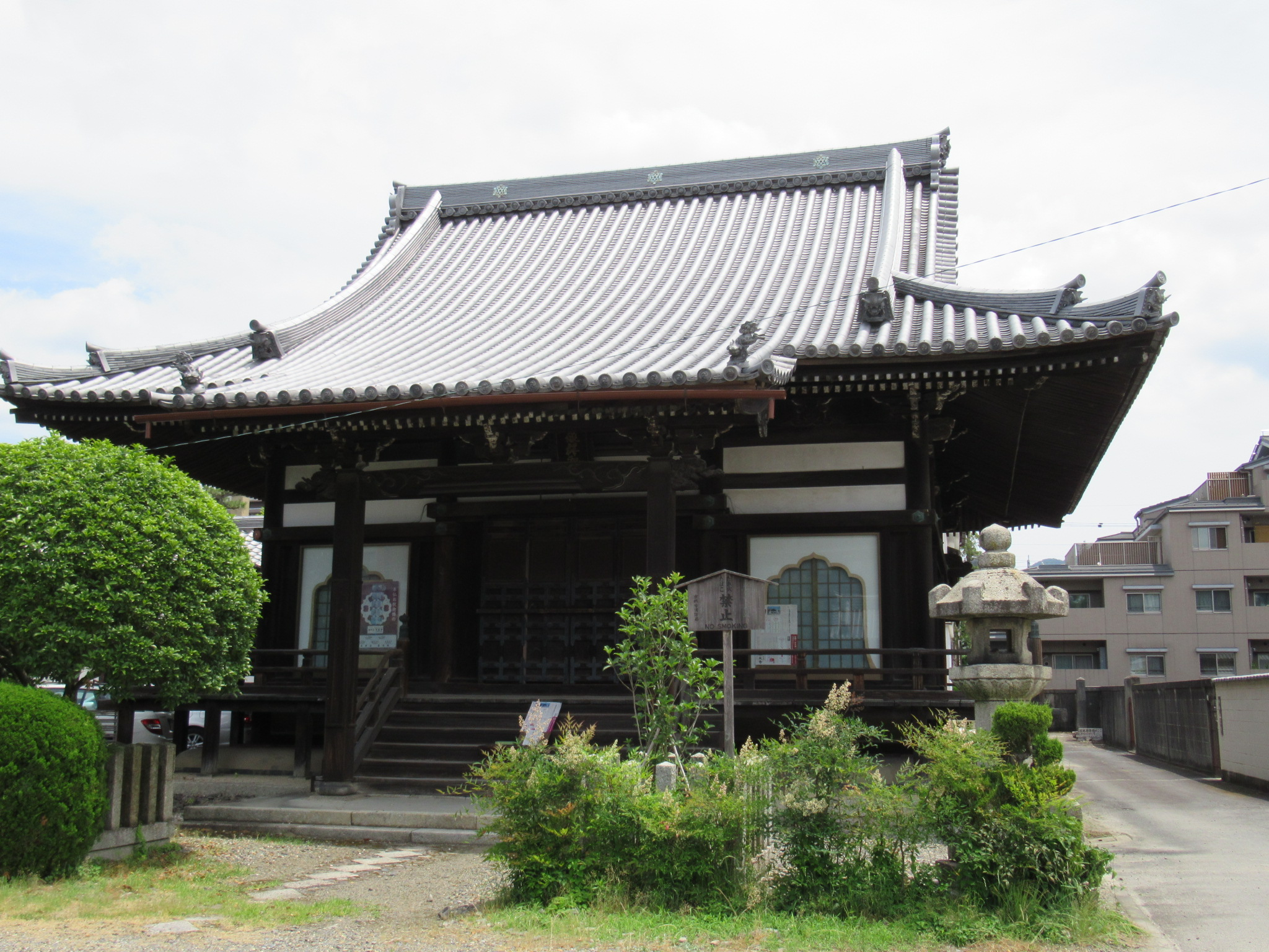 Honzenji, Kamigyo-ku, Kyoto.